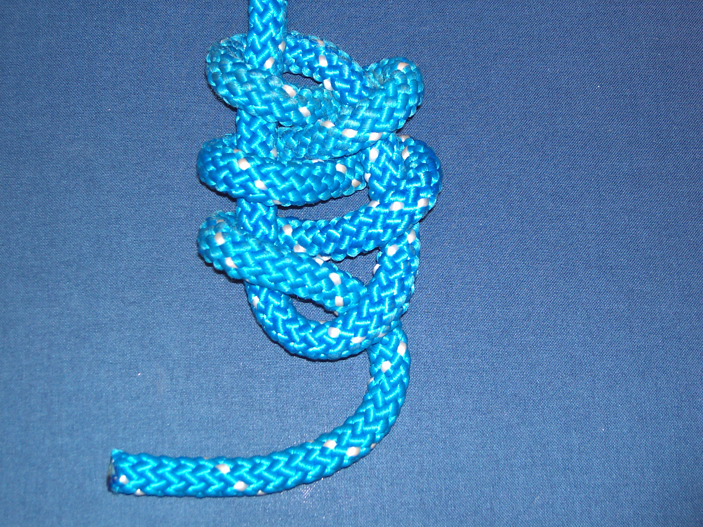 Extended figure-eight knot (loose)